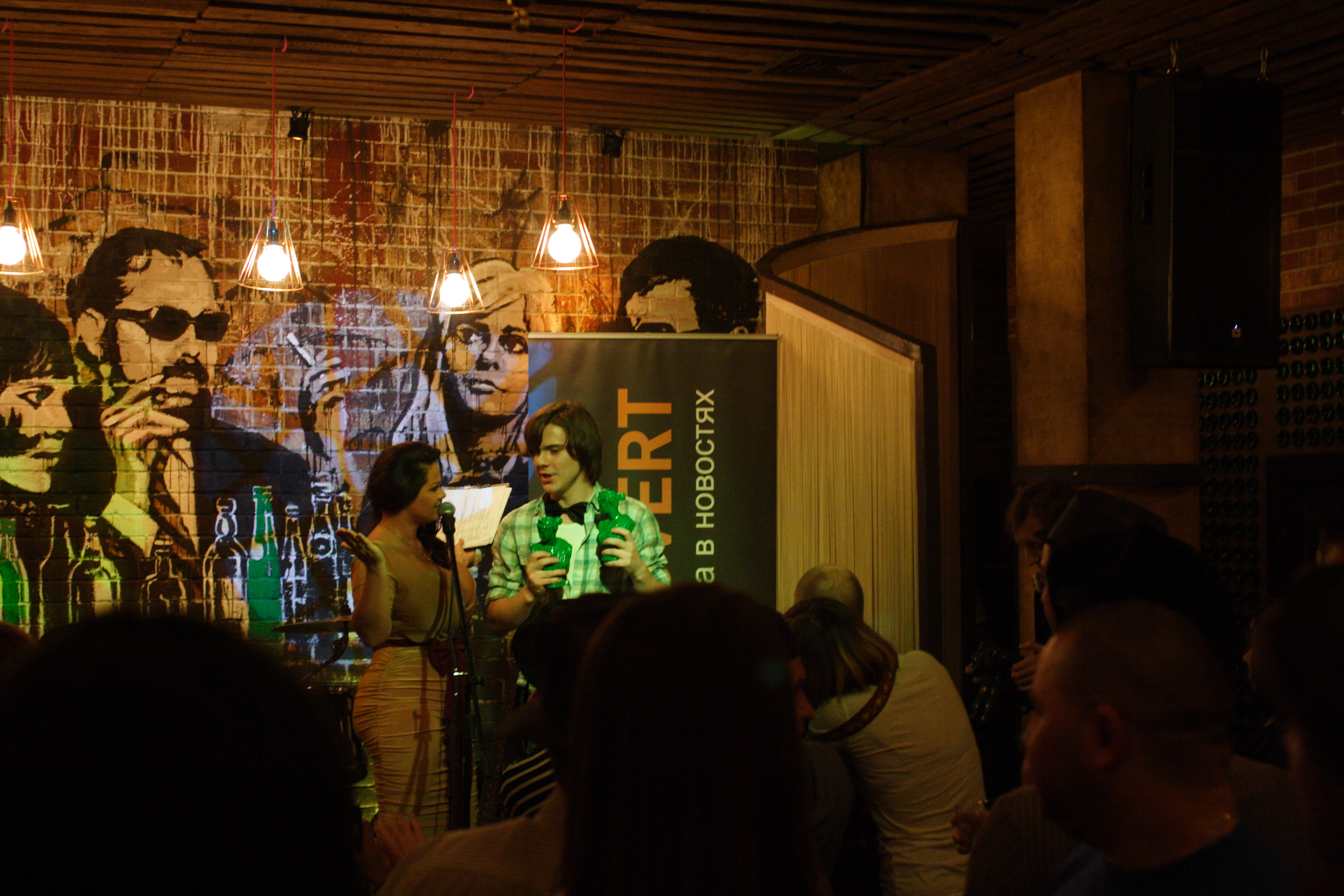 Award ceremony of Antipremia Runeta 2012. Lurkmore.to received two prizes in one nomination "Потеха года": Jury choice and People's choice.